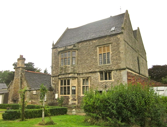 The west front of Dowsby Hall, a Grade II* listed early 17th-century Jacobean house situated in Dowsby, 6 miles (10 km) to the to the north of Bourne in Lincolnshire, England.